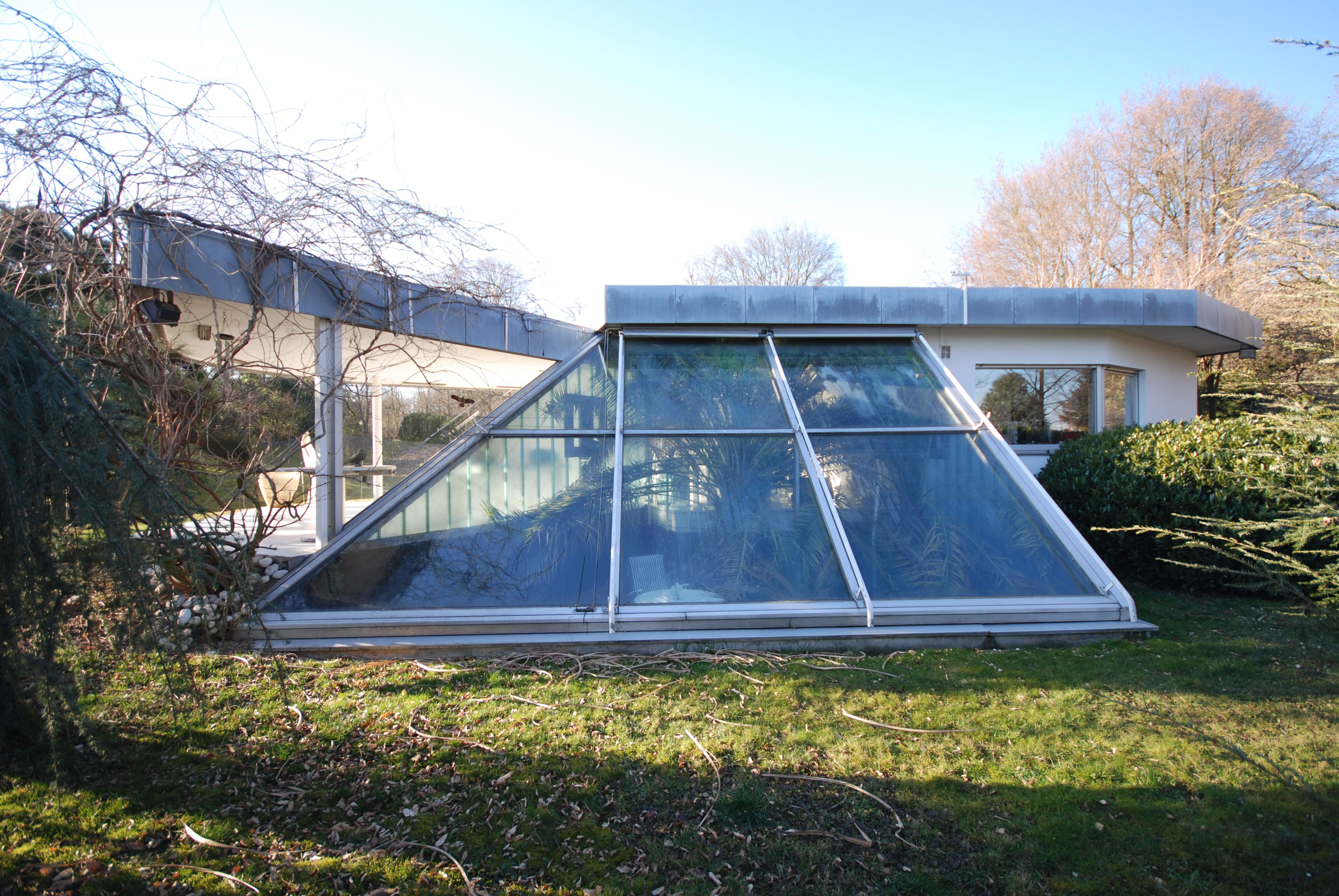 Chen Kuen Lee, Straub junior mansion (1978)